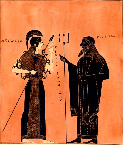 Side A: Athena and Poseidon (identified by inscriptions).